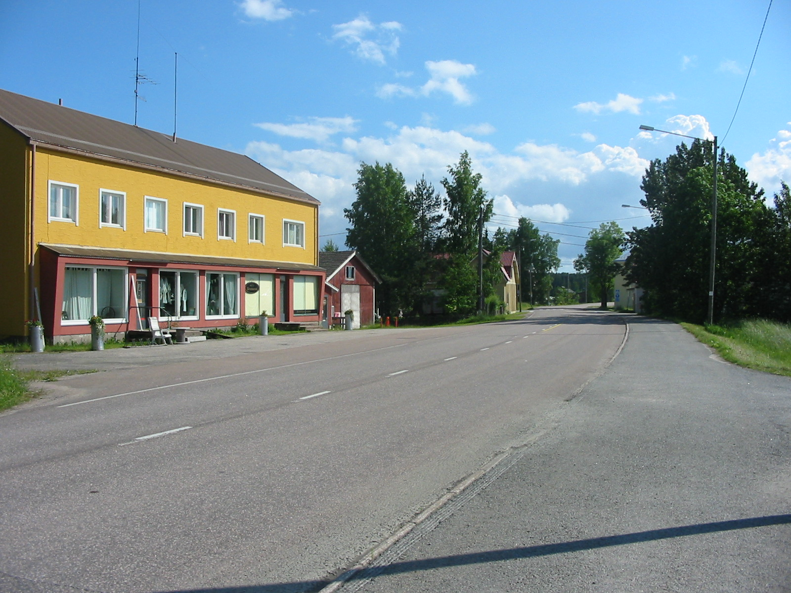 Street view from Paattinen, Turku, Finland